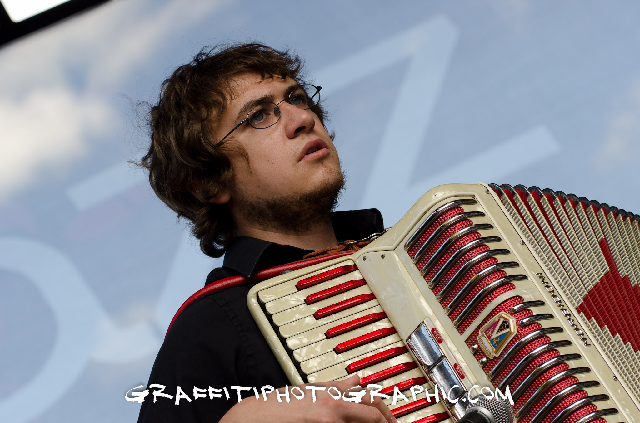 From the tinkling opening notes of its new album Flora. Fauna. Fervor., played on Wurlitzer piano, you know you’re in for a different experience with Matt Ulery’s Loom. A frighteningly versatile bassist who is equally at home with vocal jazz (he’s singer Grazyna Auguscik’s music director), Balkan experimentation (he’s a member of Eastern Block with guitarist Goran Ivanovic), South American folk and Steve Reichian minimalism, Ulery is a young master of texture and atmosphere – and timing. Ulery also is schooled in the art of drawing fresh emotion from unusual instrumental blends. Loom, which features pianist and accordionist Rob Clearfield, trumpeter Thad Franklin, tenor saxophonist Tim Haldeman, violinist Zach Brock, vibraphonist Katie Wiegman and drummer Jon Deitemyer, is a band of steadiy shifting focus. Each of the musicians has a say in the ebb and flow of the music. In the end, you may not know what to call it. But you’ll be so happily lost in it, that won’t matter. SUNDAY, SEPTEMBER 4 Grant Park Jazz on Jackson Stage Matt Ulery’s Loom 2:20 – 3:15 pm